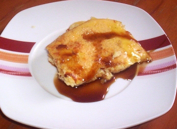 Leche Asada